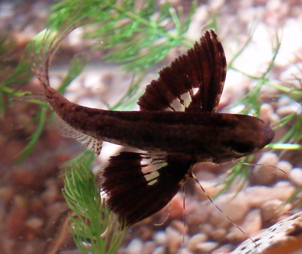 Pantodon bucholzi from above, showing its butterfly-like wings (pectoral fins).